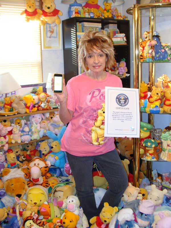 This is a picture I HAVE TAKEN of Deb to include in her wiki article. Other information This is similar to another picture, also taken by ME, which has been used on other sites, such as Twitter and Just Collecting.